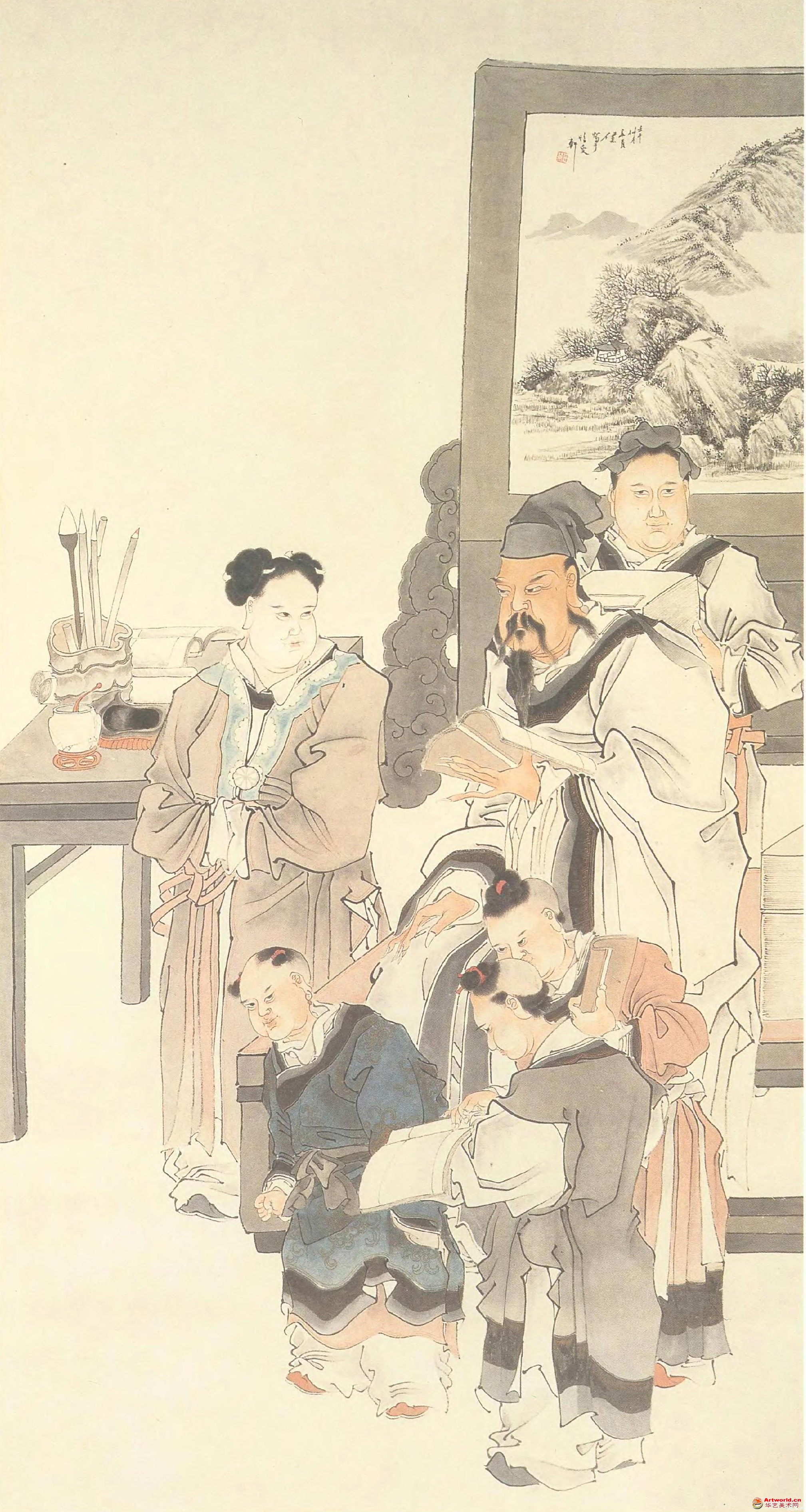 Dou Yanshan Teaching Sons, ink and color on paper, painted by Ren Xun (1835-1893), now is a collection of Suzhou Museum.